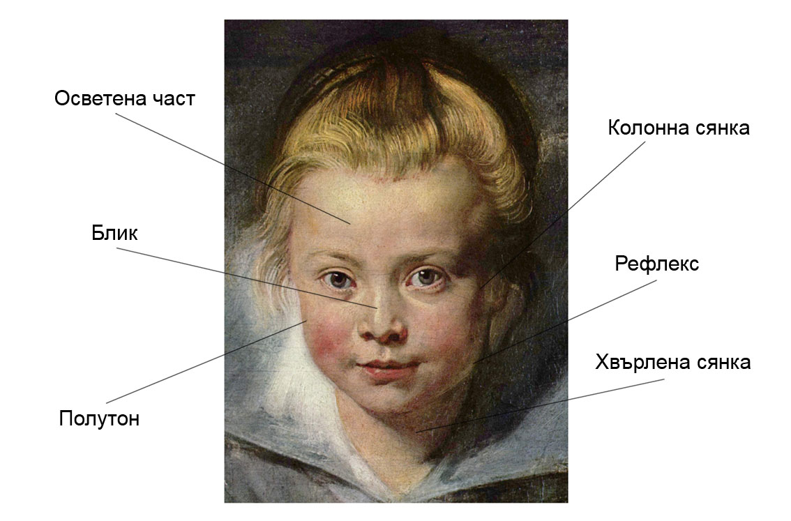 Chiaroscuro